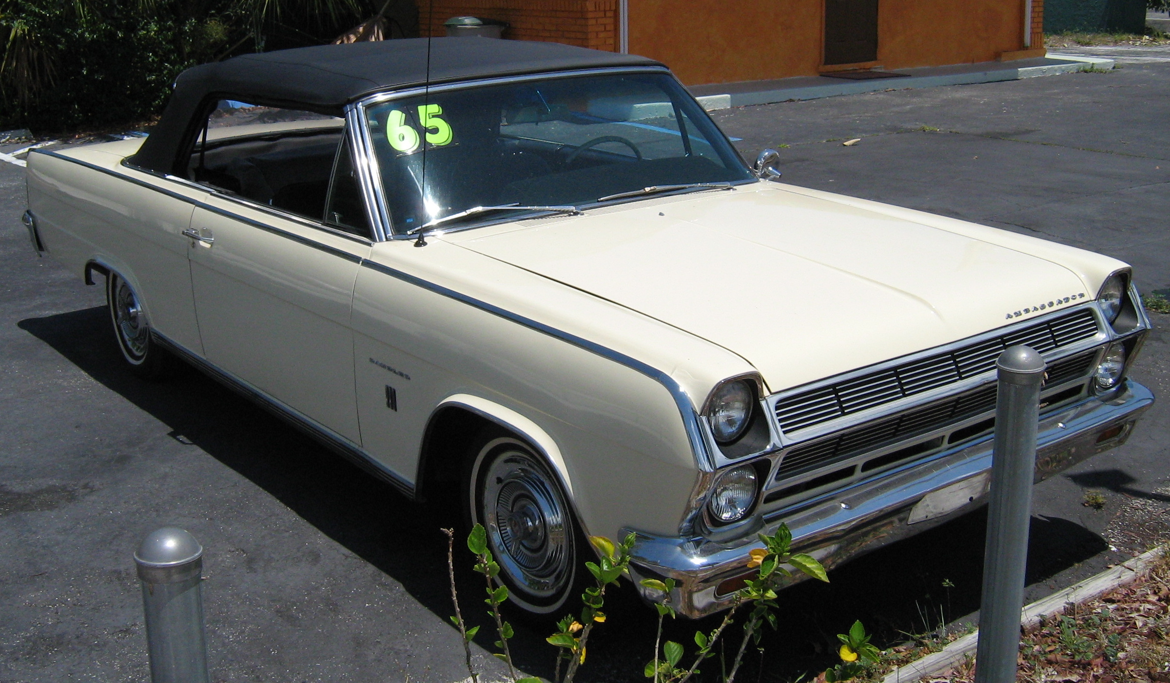 1965 Ambassador 990 convertible by American Motors (AMC). This was the year a convertible model was introduced in AMC's big car platform and it was also the last year that the Ambassador line used "Rambler" as part of its name. Picture taken on Dixie Highway (US-1) in West Palm Beach, Florida